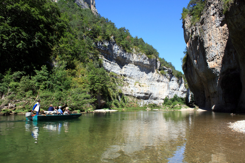 boatman of la malene gorges du tarn